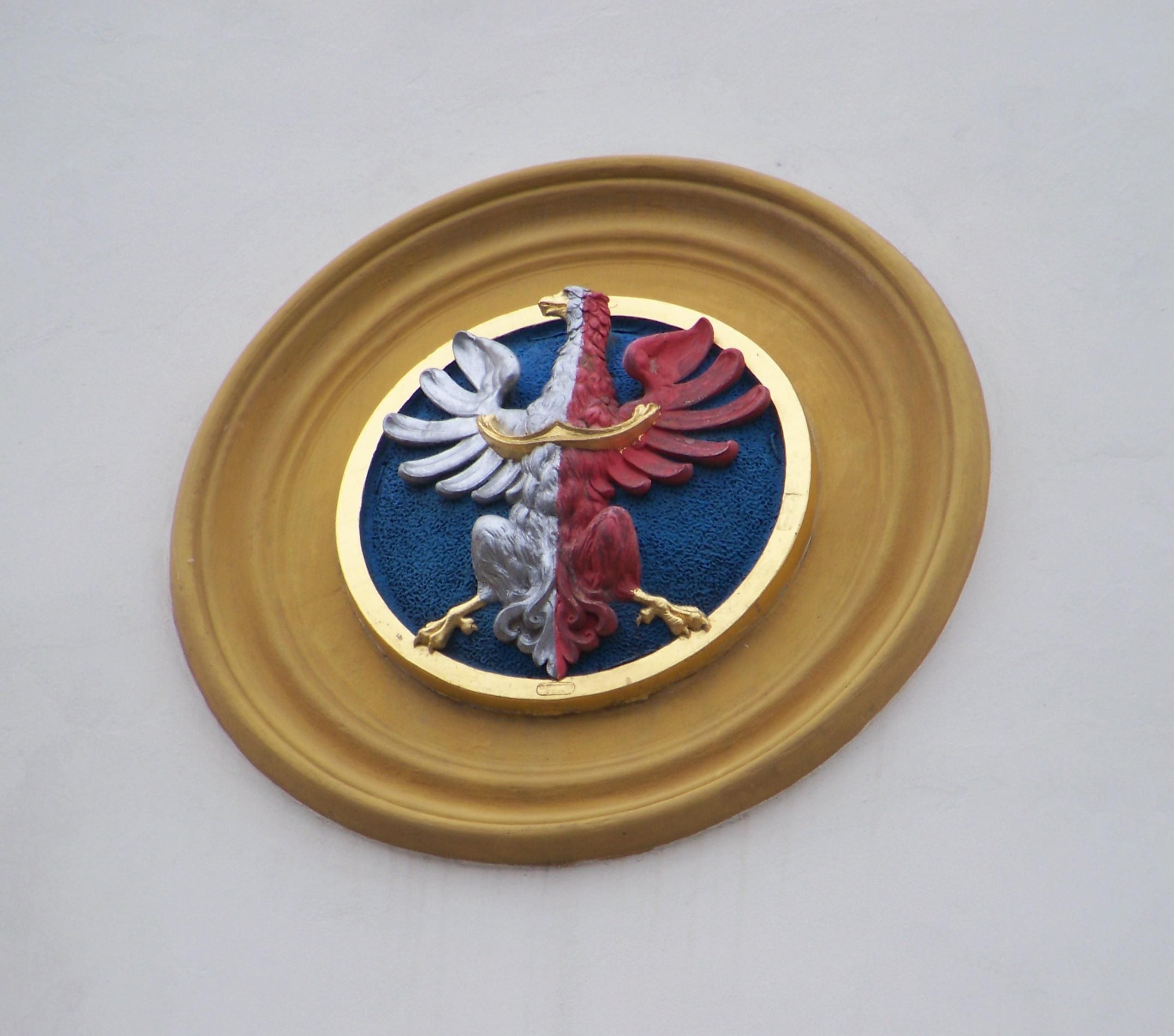 Mšeno, Mělník District, Central Bohemian Region, the Czech Republic. Peace Square, a relief of the city coat of arms on the town hall.